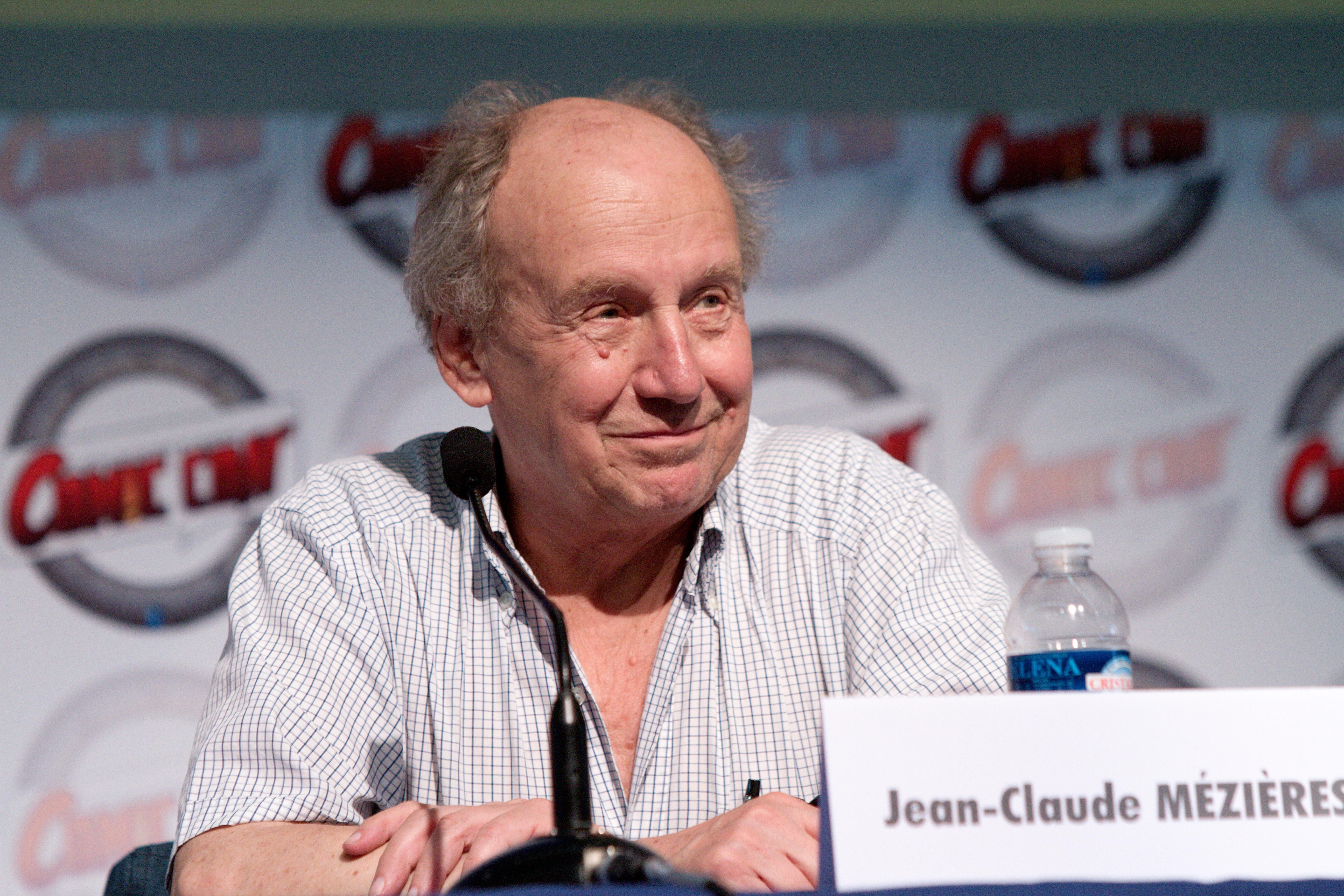 Jean-Claude Mézières and Pierre Christin's lecture at Japan Expo 2010 (Paris, France).